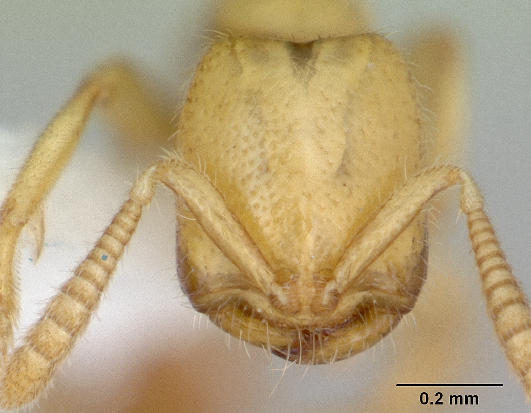 Head view of ant Adetomyrma venatrix specimen casent0172771.